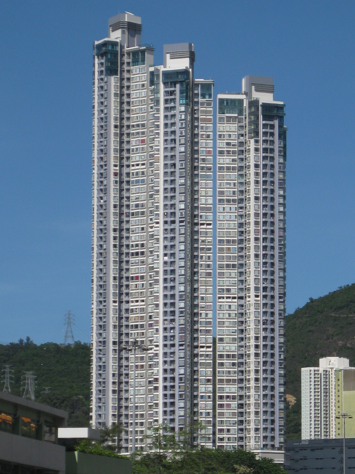 Primrose Hill